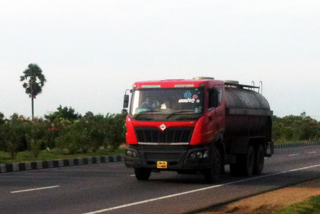 A 2013 built Mahindra Navistar Tanker Truckplying on NH45 in Tamil Nadu, India